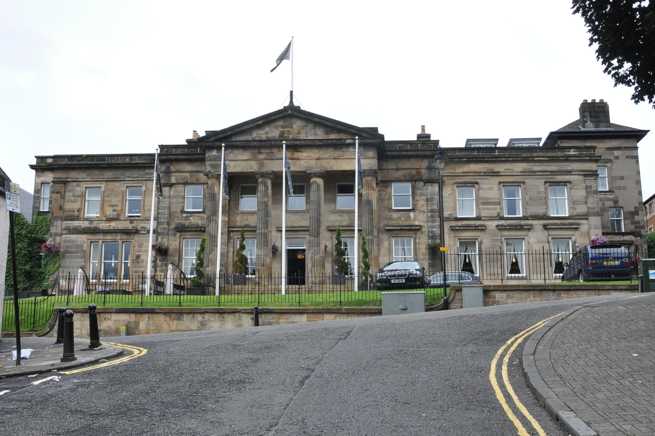 At the top of bank Street, this was originally the premises of the Commercial Banking Company.